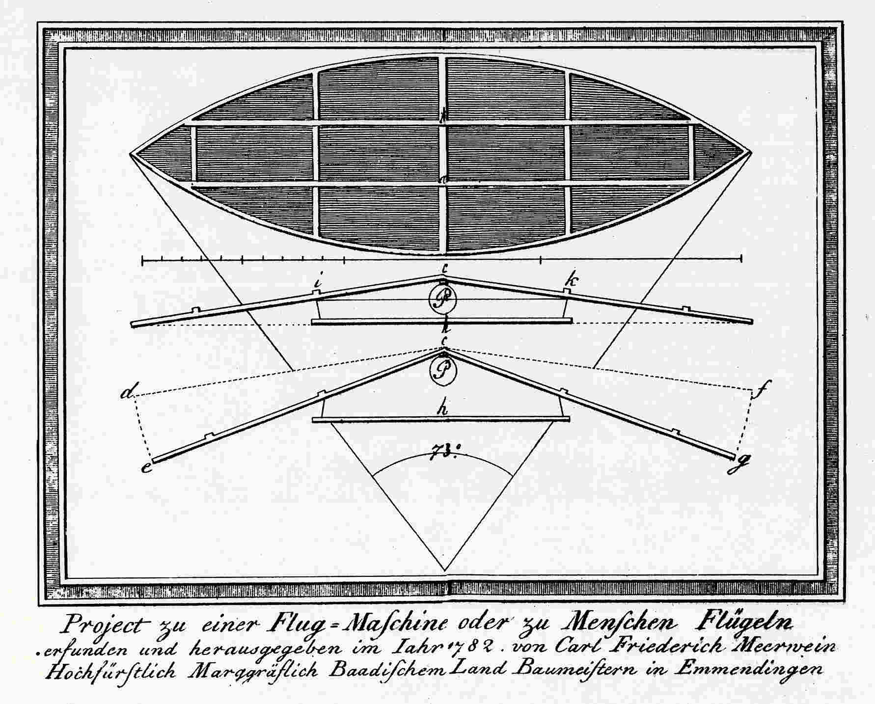 Flying apparatus of Carl Friedrich Meerwein.